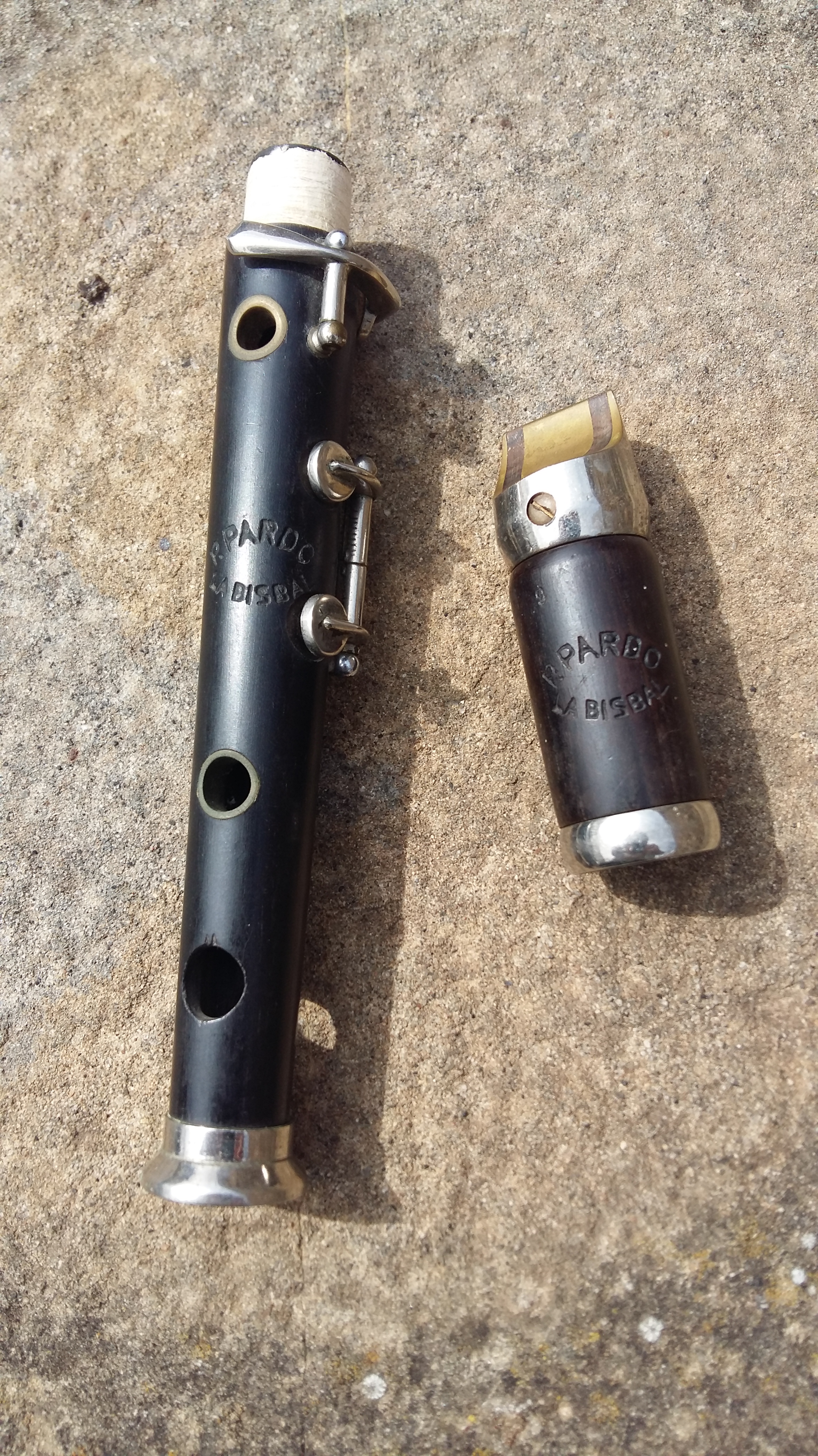 Flabiol of instrument maker P. Pardo, La Bisbal, Catalonia, 1967